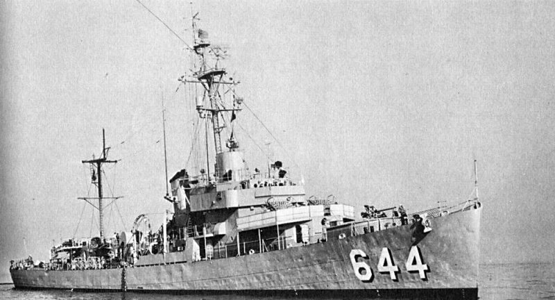 The U.S. Navy destroyer escort USS Vammen (DE-644) off San Francisco, California (USA), on 3 December 1957.